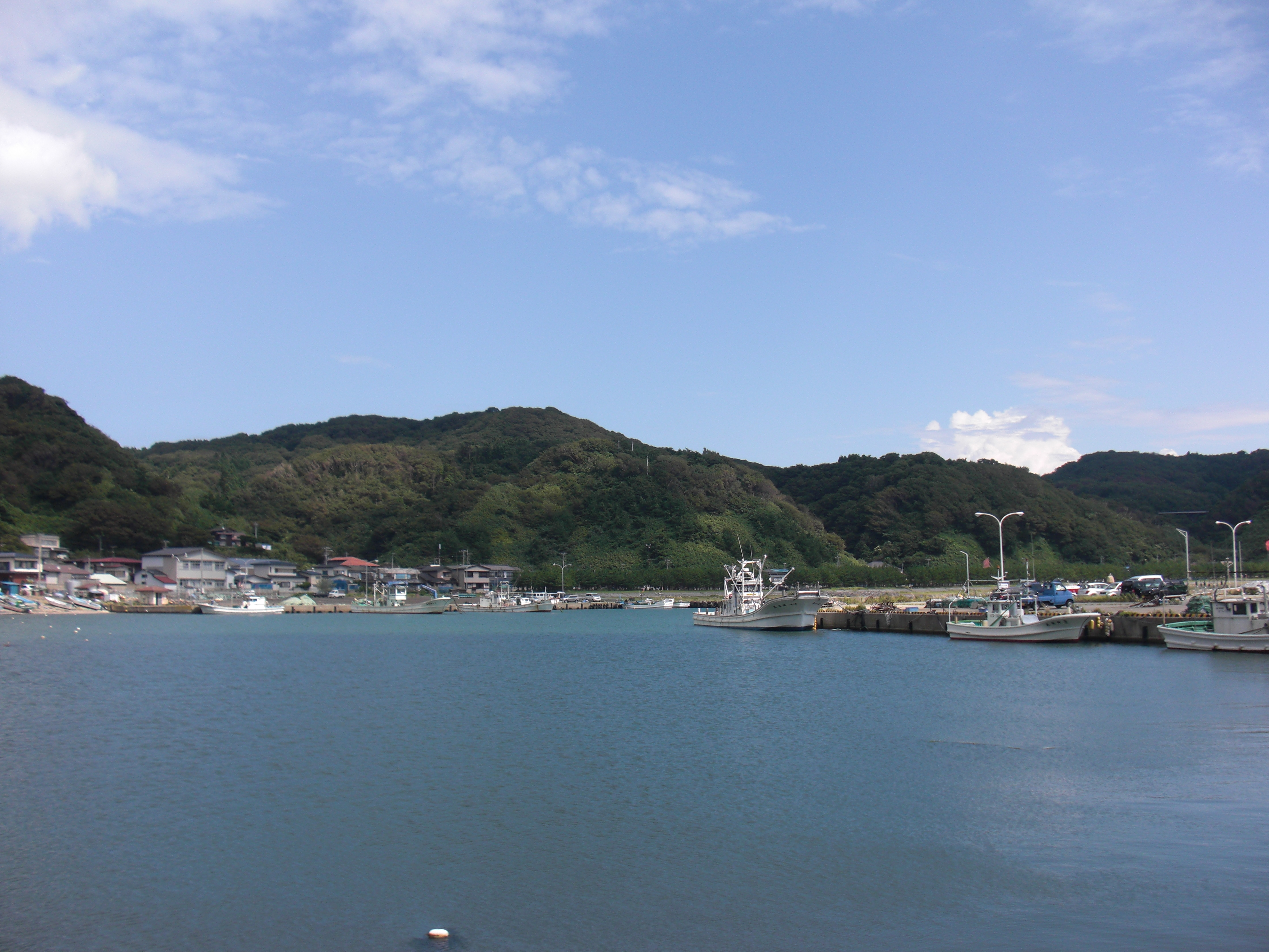 Toga port from a wharf at Oga, Akita, Japan.